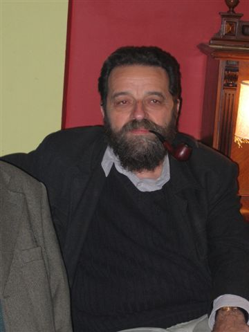 Konstanty Gebert (b. 1953), Polish journalist